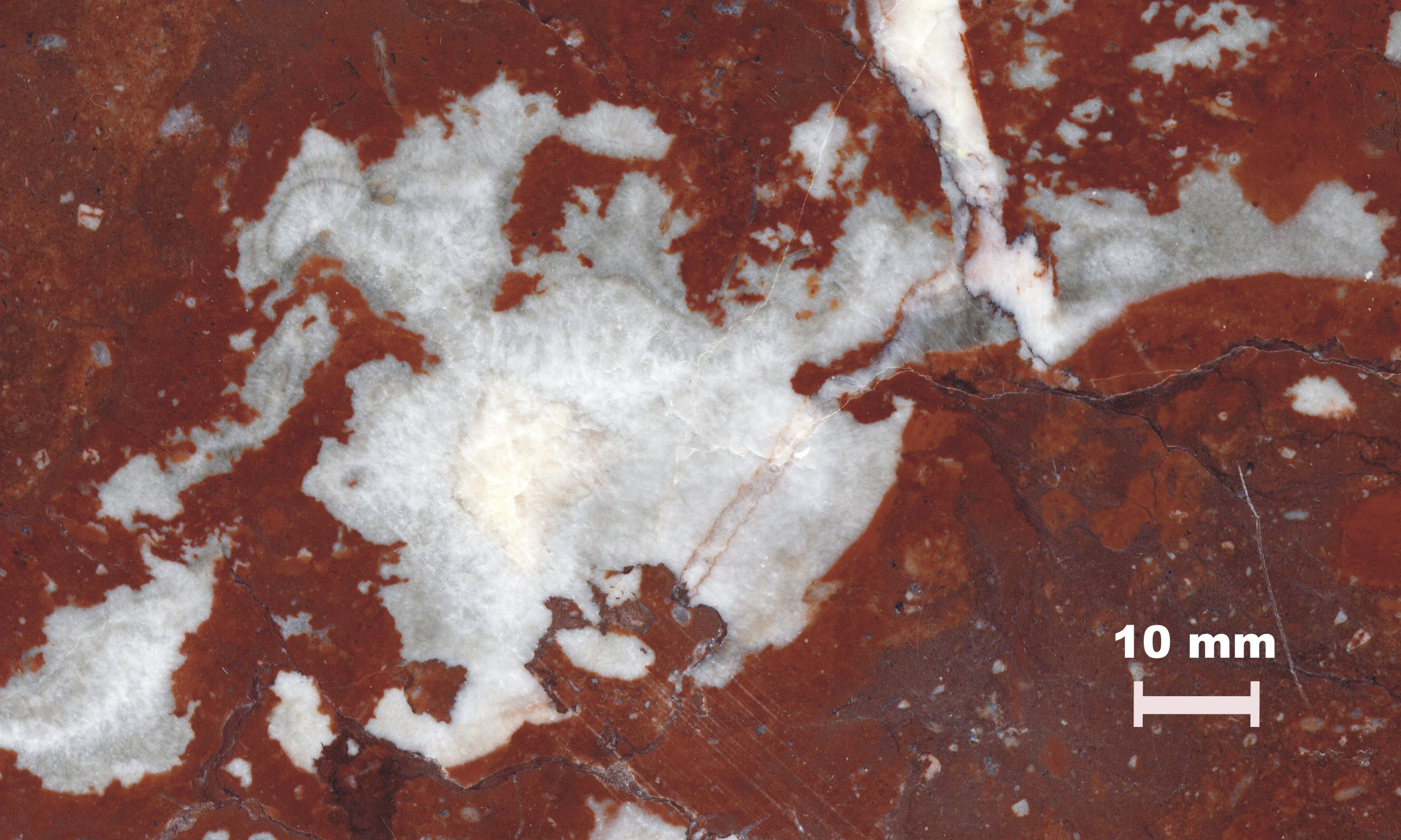 Wallonian limestone (Griotte belge) with cementation (stromatactis structure), region Philippeville